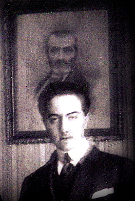 Picture of Carlos Malbranche, Boulogne-Sur-Seine, 1919. Behind portrait of Charles Grétau his maternal grandfather. Pic by Gabriel Malbranche, his father.